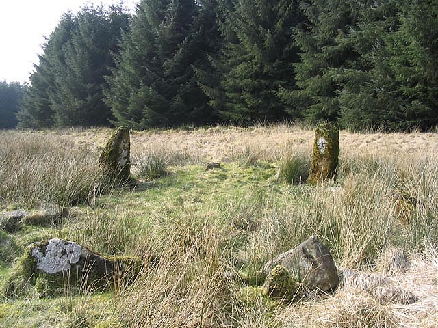 Nine Stones Stone Circle This small stone circle stands in a clearing in forestry near the summit of Nine Stone Rig and is believed to be Early Bronze Age. According to legend this is where the wizard Lord Soulis was rolled in lead and boiled alive. "At the Skelf-hill, the cauldron still The men of Liddesdale can show; And on the spot, where they boiled the pot, The spreat and the deer-hair ne'er shall grow" (Leydon) (Source: The Border Country, A Walker's Guide by Alan Hall)